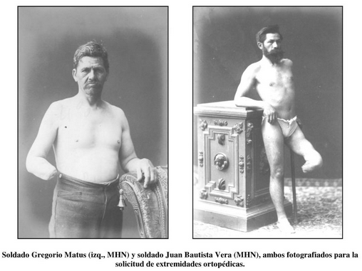 Matus y Vera, mutilados en la Guerra del Pacífico